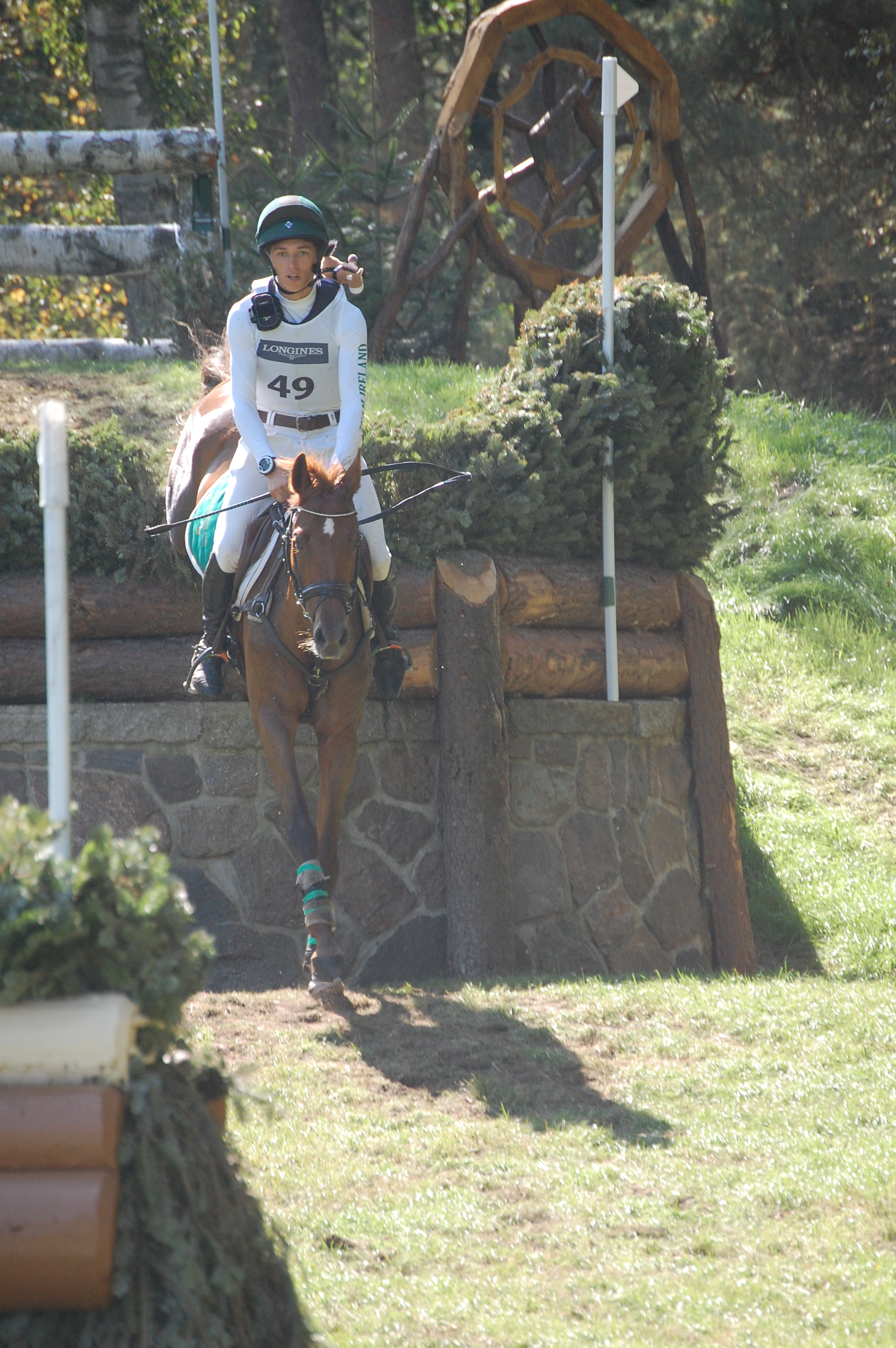 Irish rider Cathal Daniels and Rioghan Rua, fence 14b "fischer Wellenbahn" (cross-country phase), 2019 European Eventing Championship, Luhmühlen